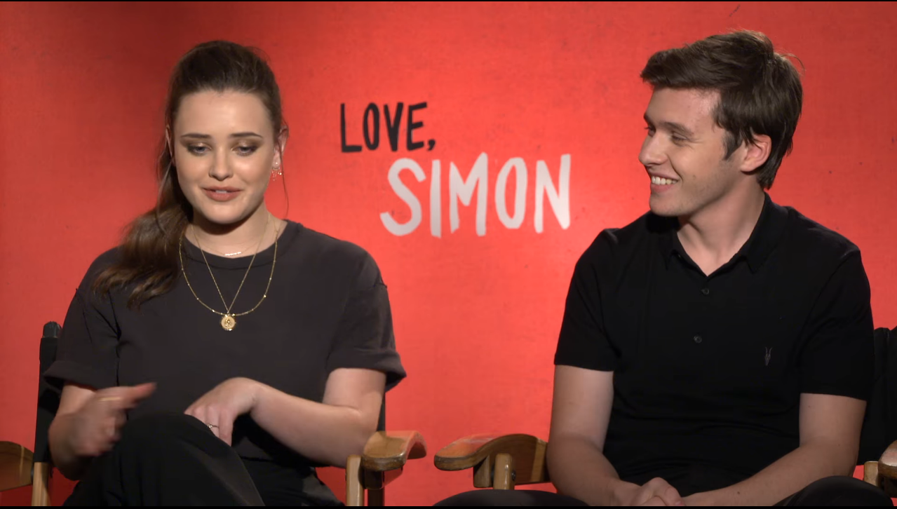 Katherine Langford and Nick Robinson